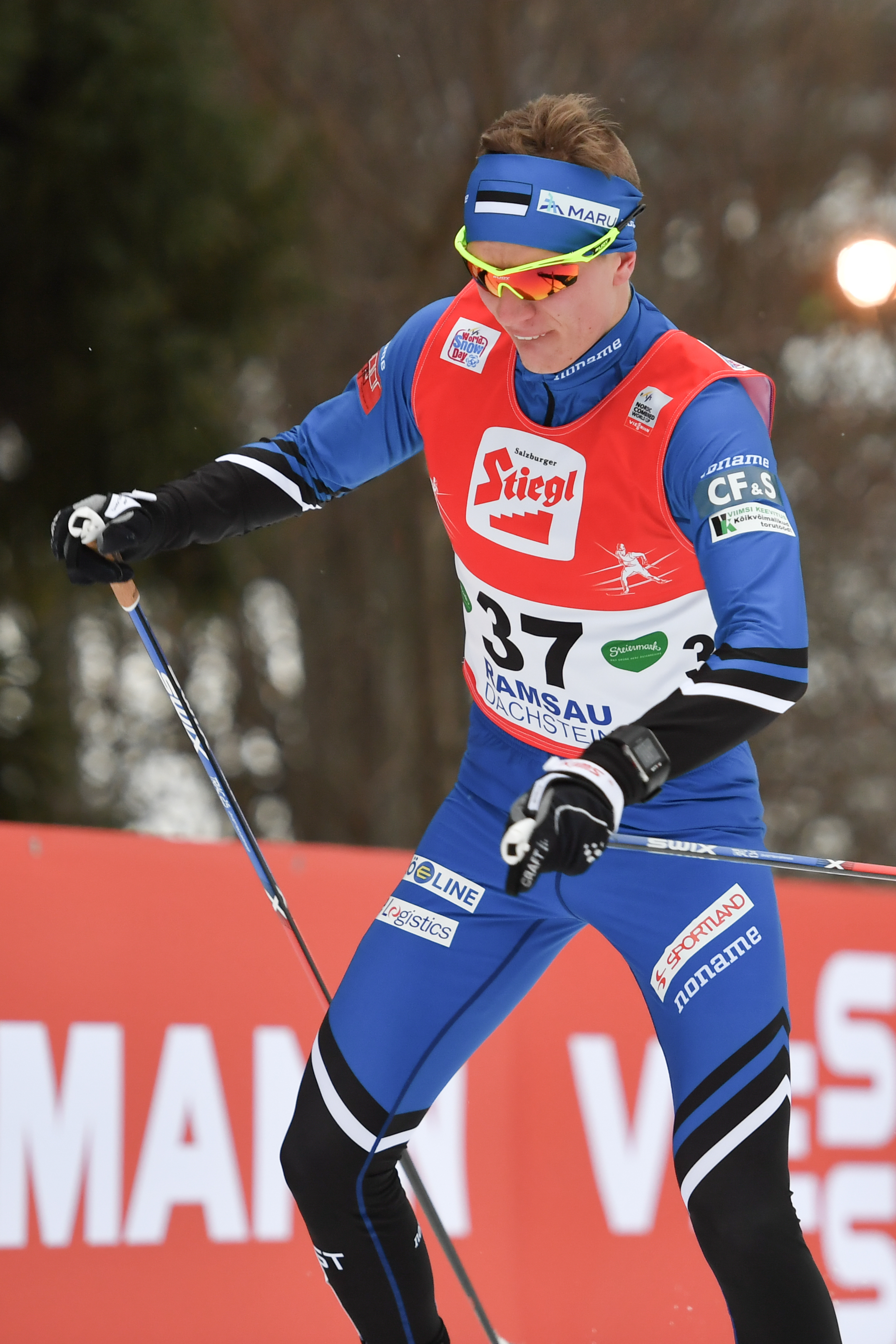 FIS World Cup Nordic Combined, Ramsau/Austria, 2016-12-16 to 2016-12-18.